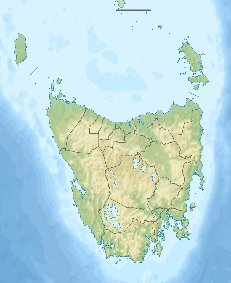 Relief map of Tasmania.